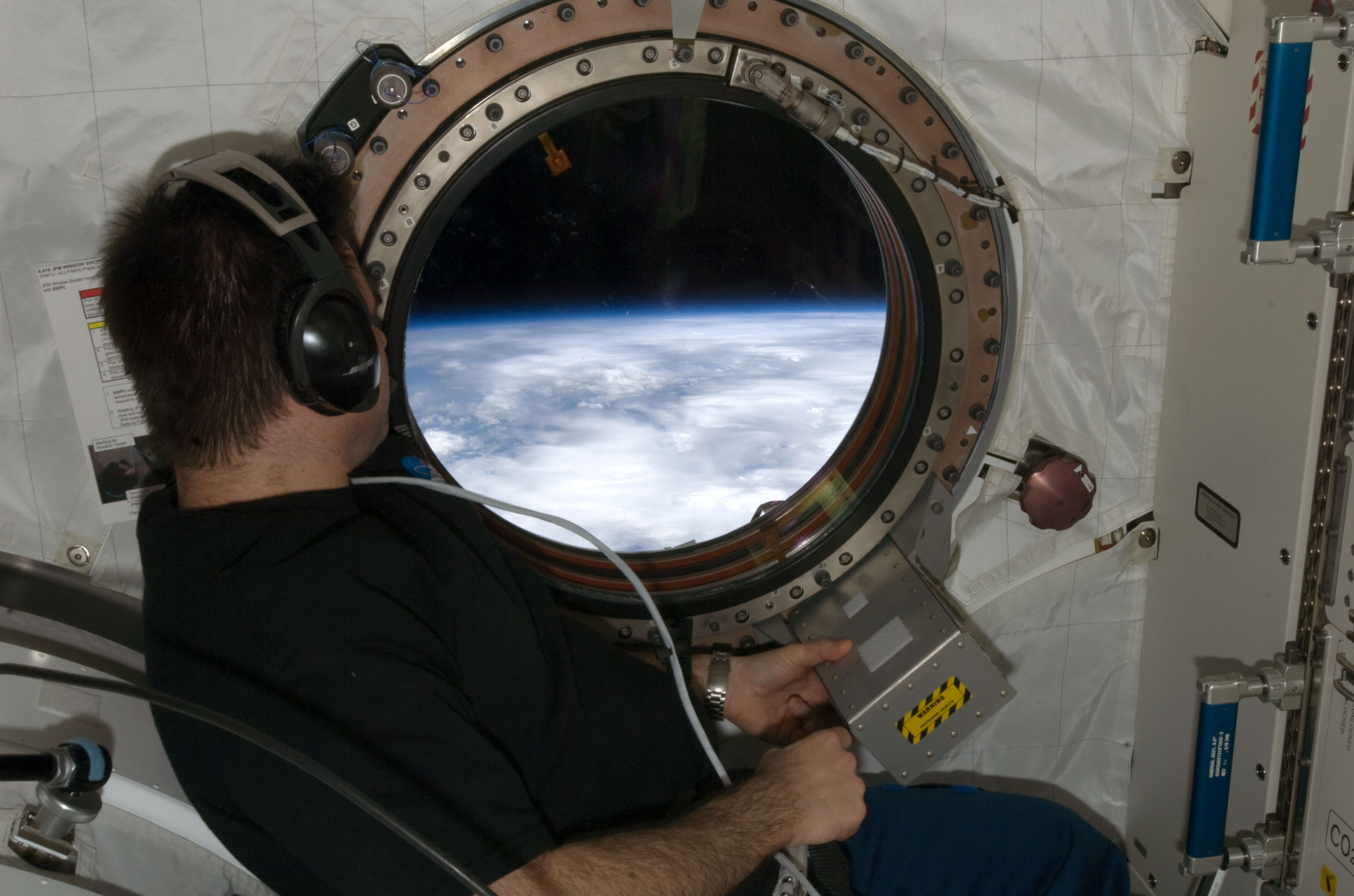 Peering out of the window of the International Space Station (ISS), astronaut Greg Chamitoff takes in the planet on which we were all born. About 350 kilometers up, the ISS is high enough so that the Earth's horizon appears clearly curved. Astronaut Chamitoff's window shows some of Earth's complex clouds, in white, and life giving atmosphere and oceans, in blue.